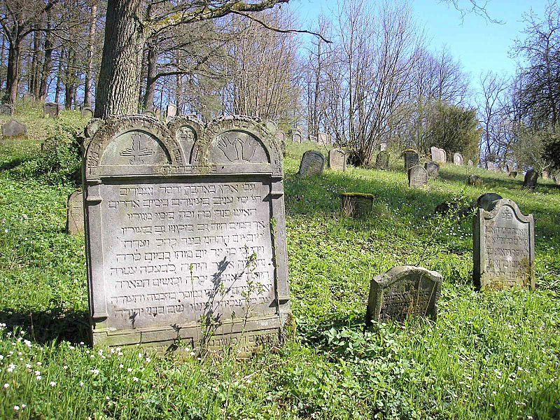 Ebern (Landkreis Haßberge, Lower Franconia, Germany). Historic Jewish cemetery (1633)